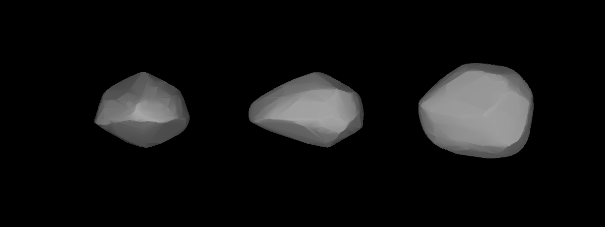 A three-dimensional model of 441 Bathilde that was computed using light curve inversion techniques.